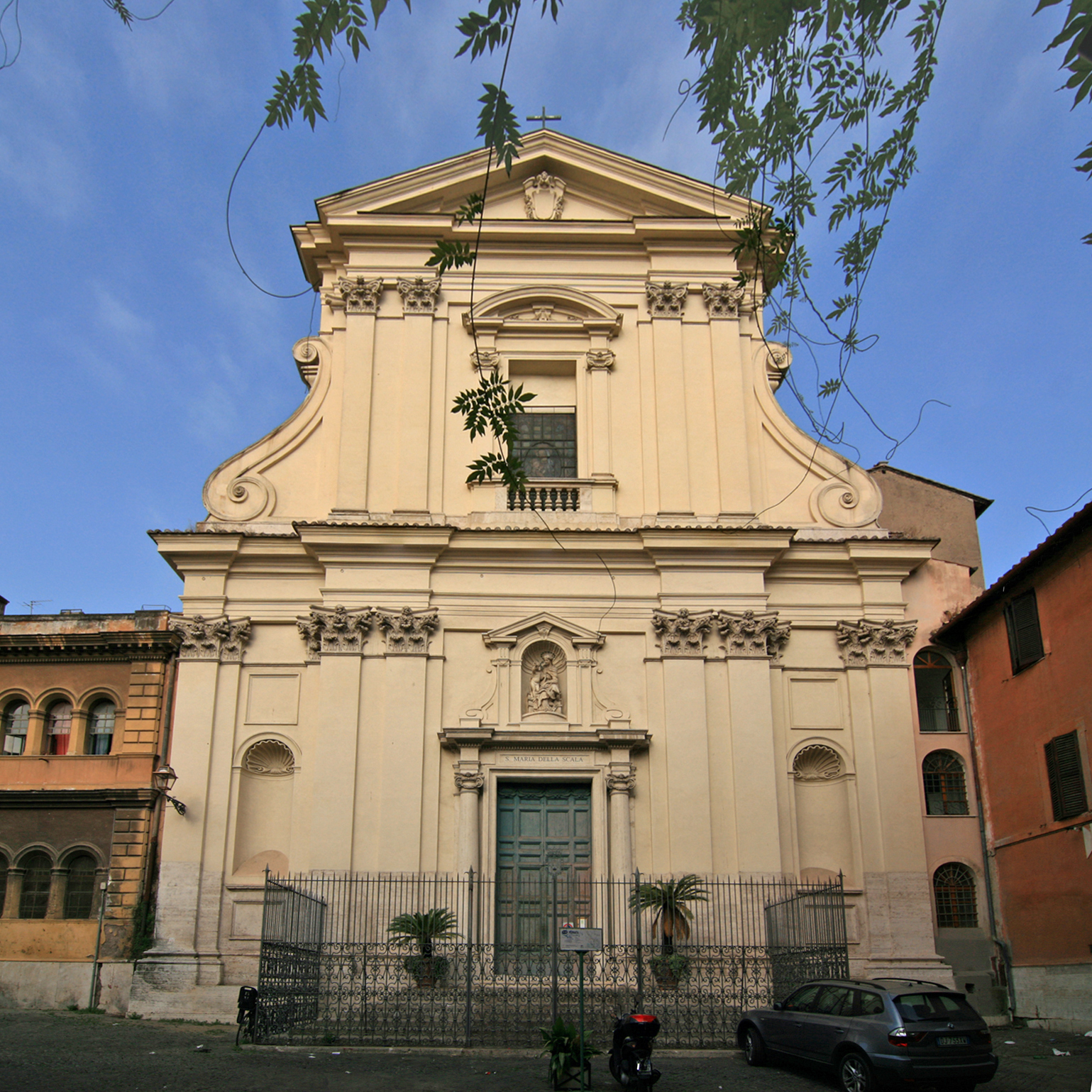 Santa Maria della Scala, Trastevere, Rome.